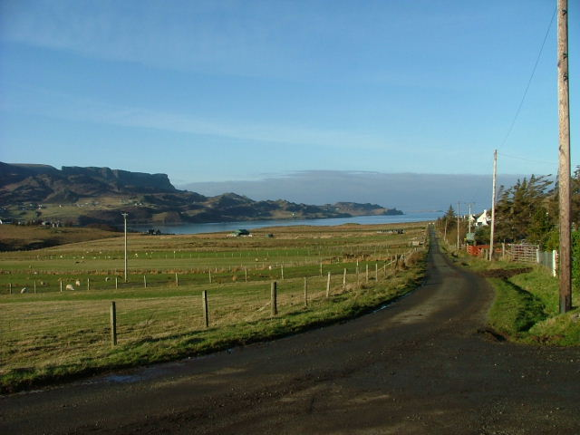 Crofting Township of Garafad